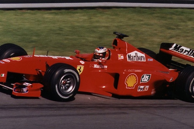 Michael Schumacher driving for Scuderia Ferrari at the 1999 Canadian Grand Prix.